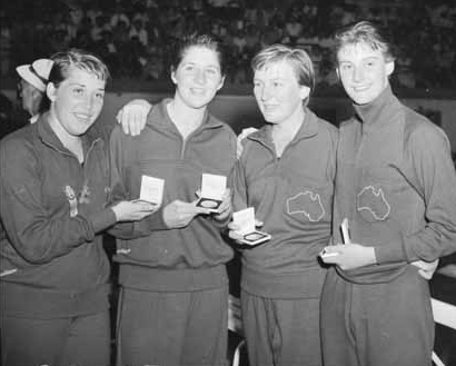 1956 Summer Olympics. Melbourne, Victoria. Australian 4 x 100 Metre Relay team winners after receiving their medals. Left to Right: Sandra Morgan, Dawn Fraser, Lorraine Crapp & Faith Leech